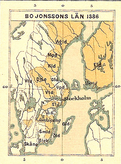 Historic map (swedish) showing the areas and lands of Bo Jonsson (Grip) (1386 ad.)